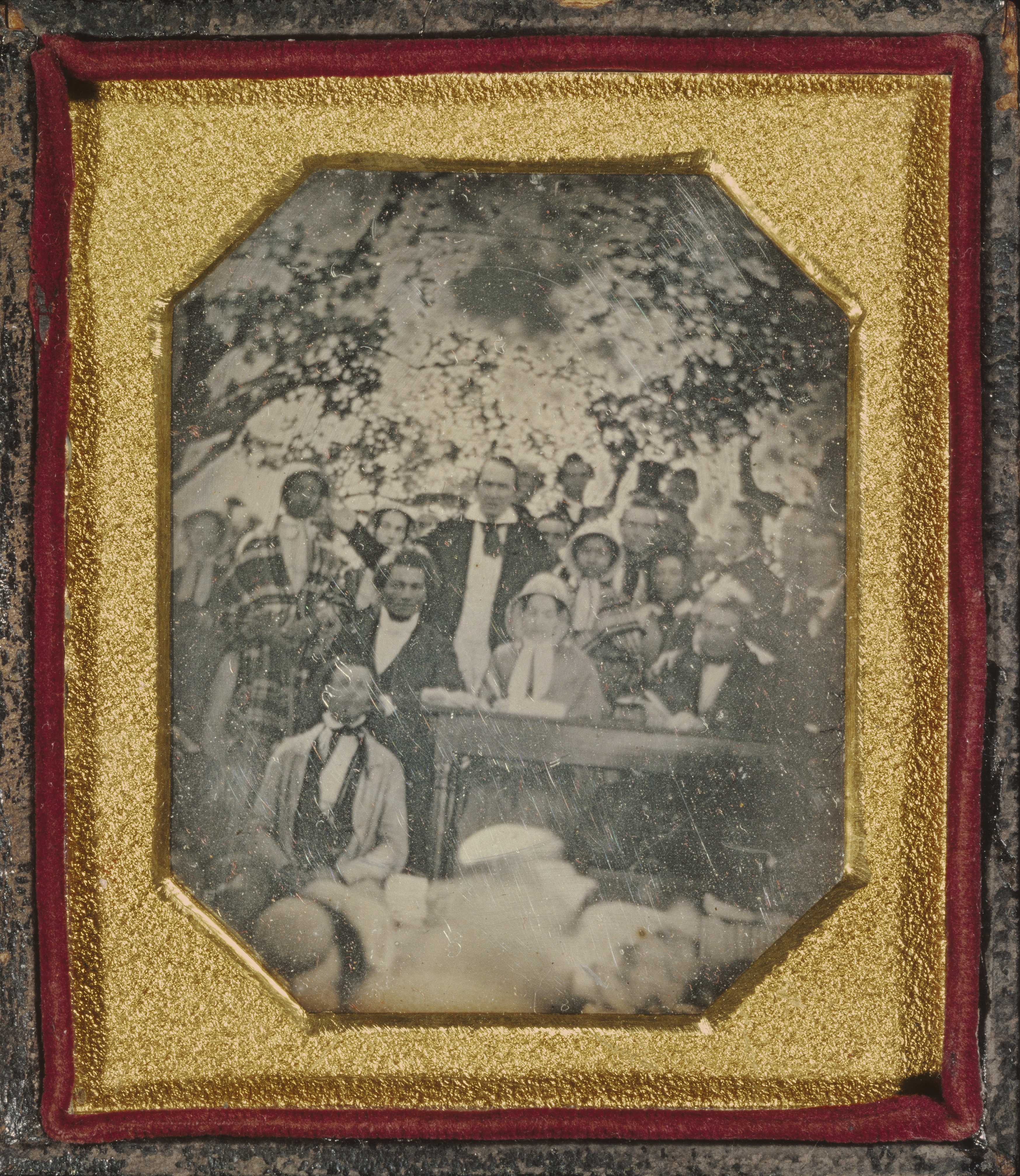 The 1850 Fugitive Slave Law Convention, Cazenovia, New York. The Edmonson sisters are standing wearing bonnets and shawls in the row behind the seated speakers. Frederick Douglass is seated, with Gerritt Smith standing behind him, and with Abby Kelley Foster the likely person seated on Douglass's left.